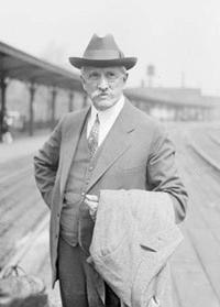 Portrait of Dr. James Breasted, Professor of Egyptology at the University of Chicago and founder of the Oriental Institute, standing outside on a train platform at a railroad station in Chicago, Illinois.